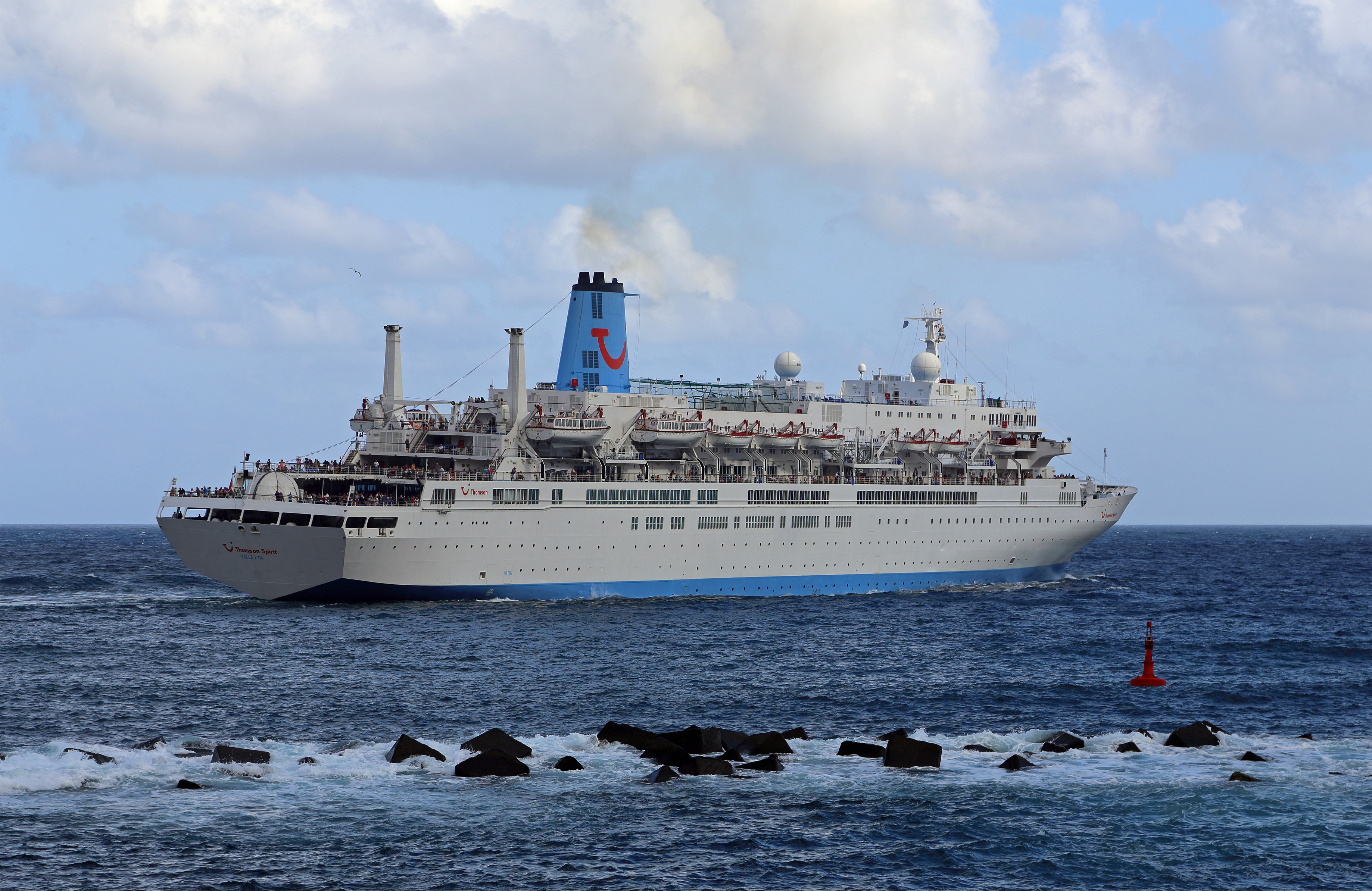 Cruise ship Thomson Spirit